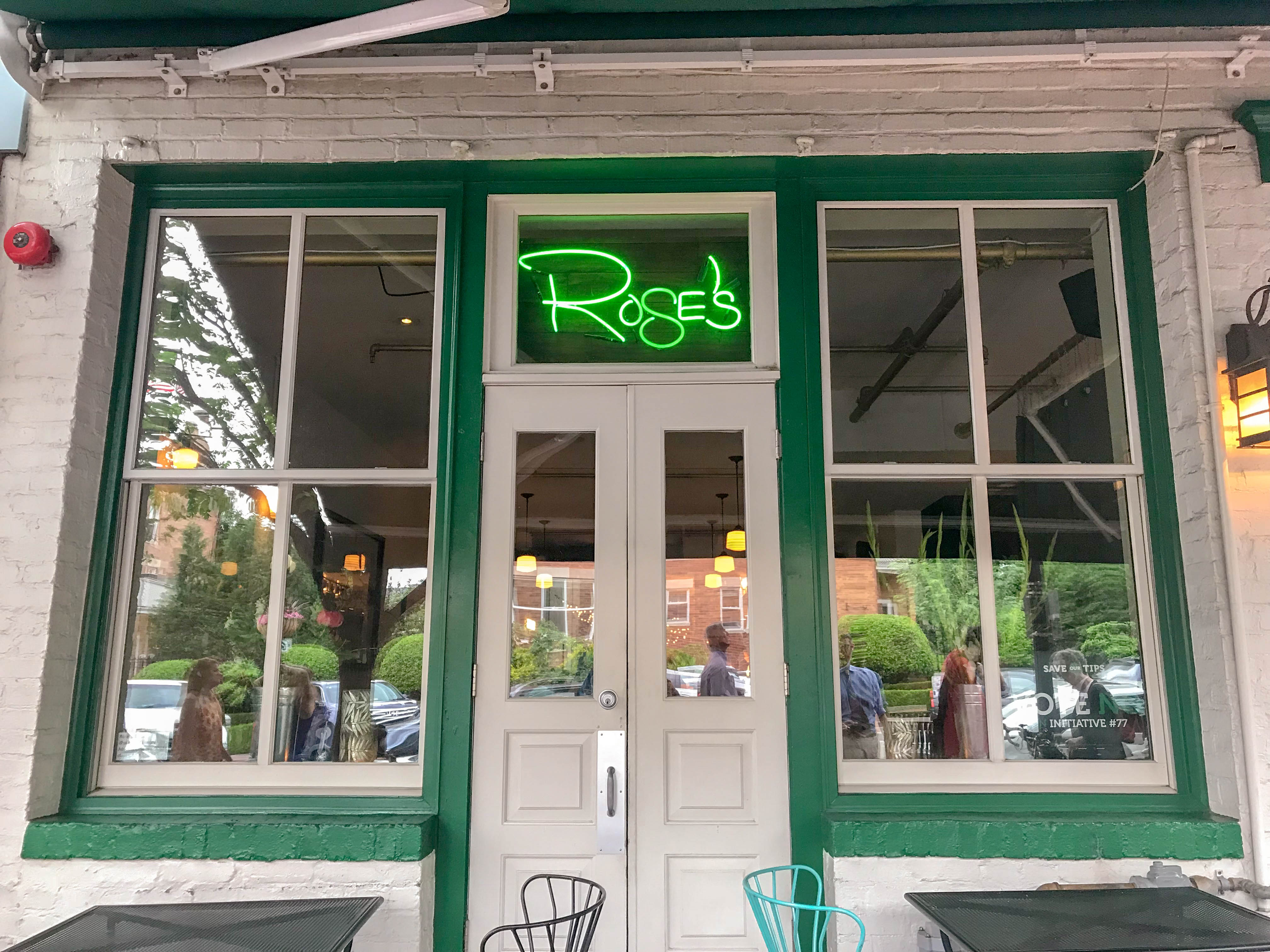 Rose's Luxury | Washington DC | 05/30/18 Lou Stejskal Twitter | Facebook | Instagram | YouTube | Foodle